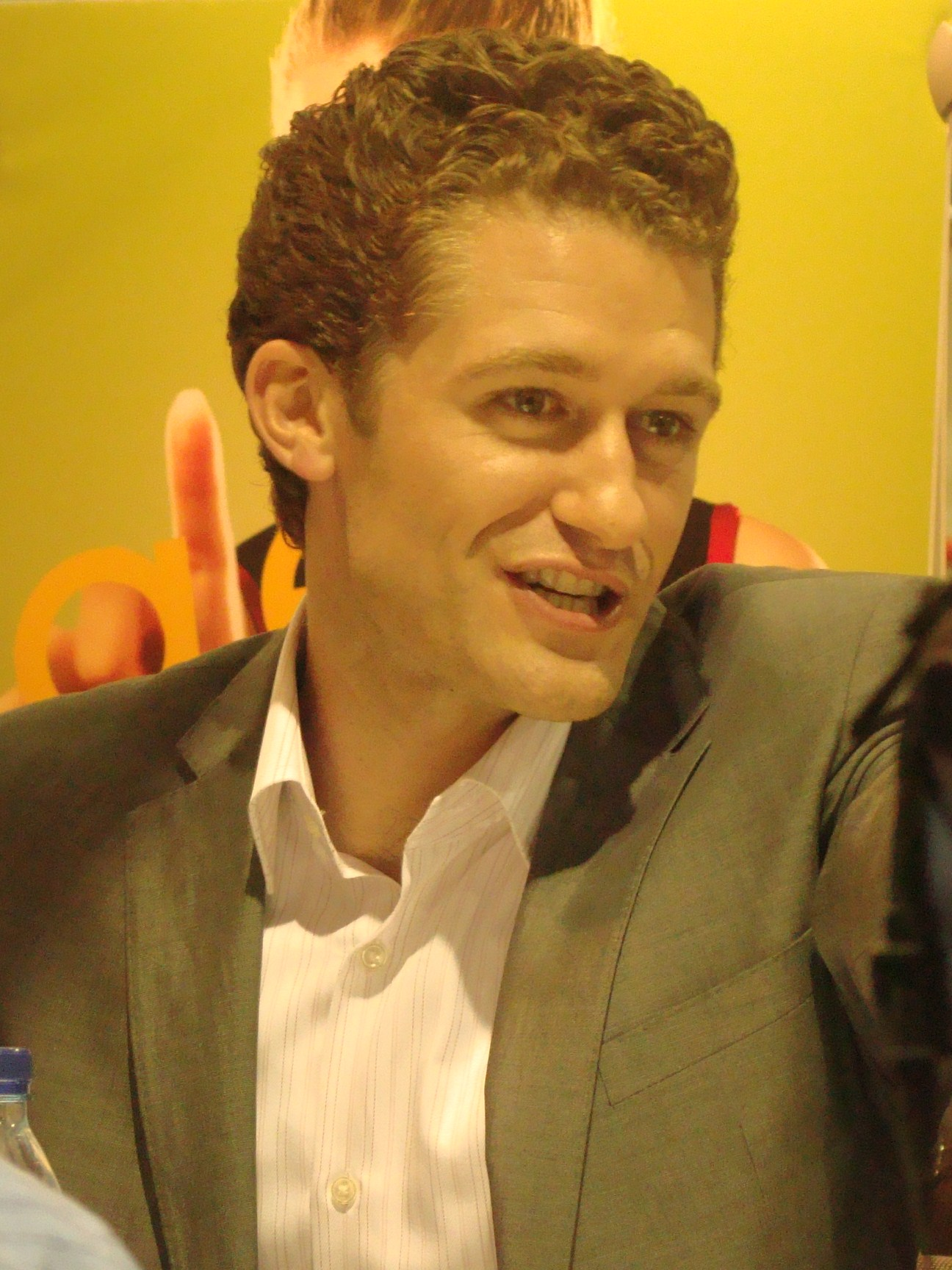 Matthew Morrison at Gaslamp, San Diego